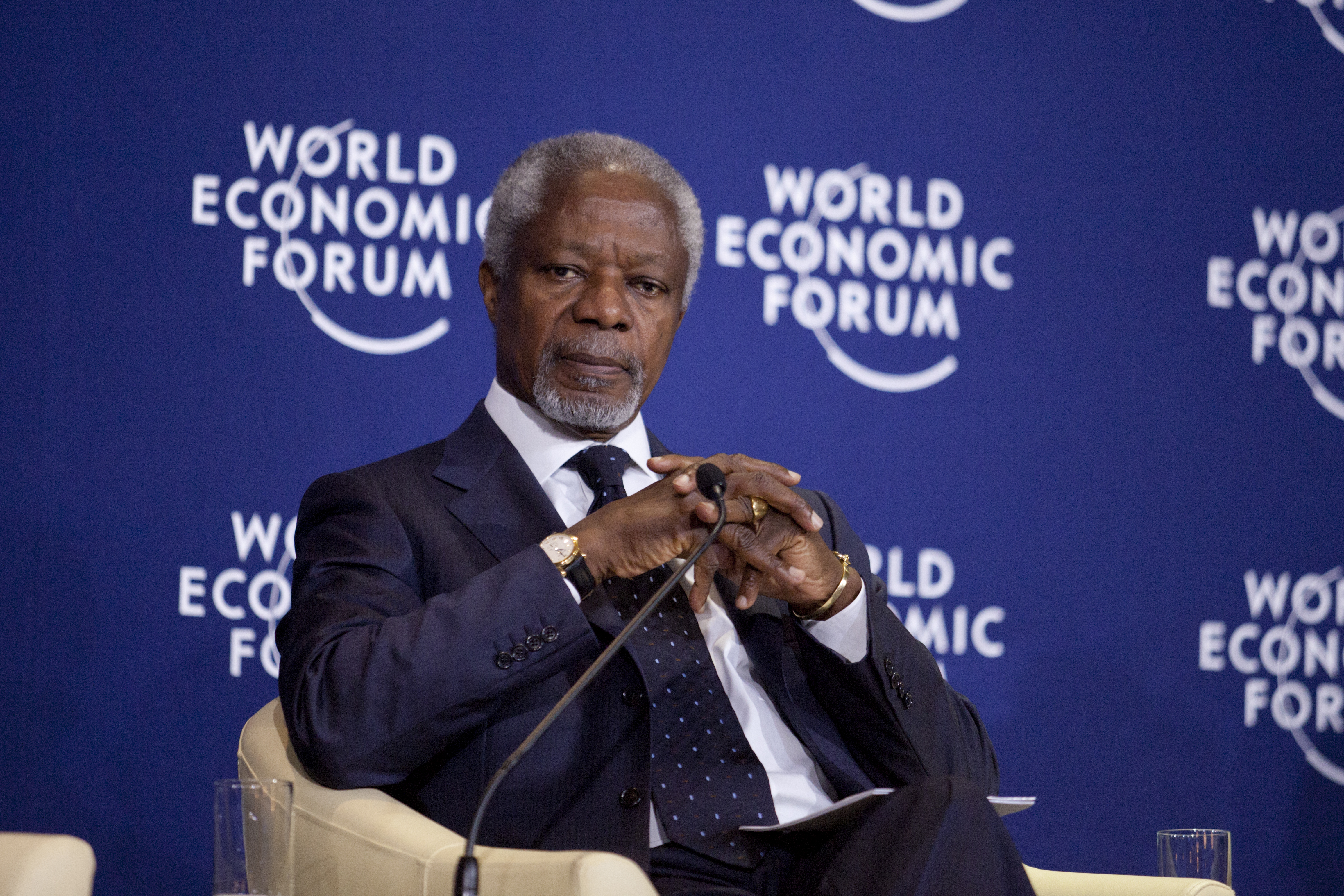 ADDIS ABABA/ETHIOPIA, 09-11 MAY 2012 - Kofi Annan, Chairman, Africa Progress Panel (APP), Switzerland captured at the Africa in the World Economy - From Tigers to Lions Session at the World Economic Forum on Africa held in Addis Ababa, Ethiopia, 9-11 May, 2012.